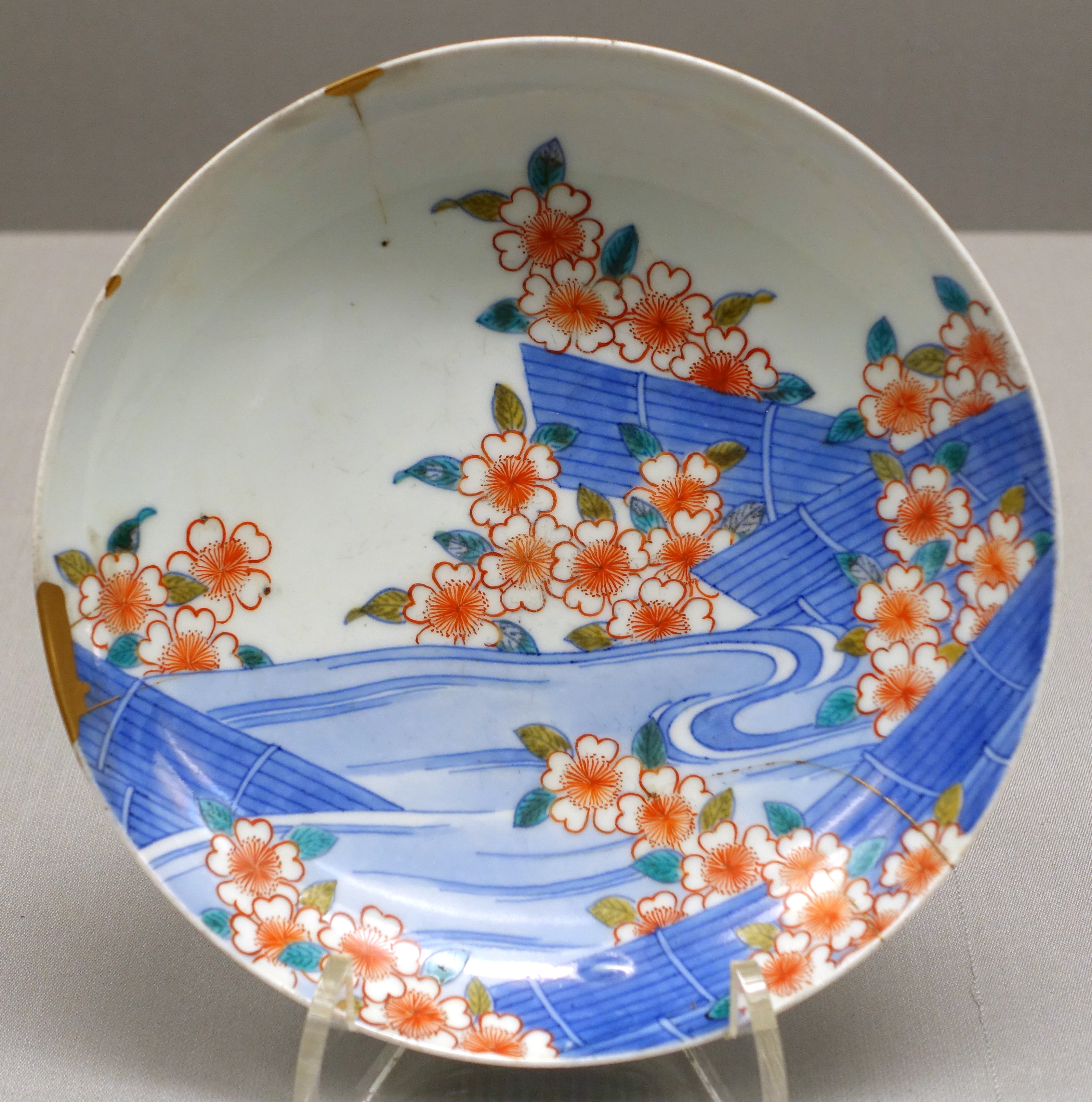 Exhibit in the Tokyo National Museum, Tokyo, Japan. This work is old enough so that it is in the public domain.